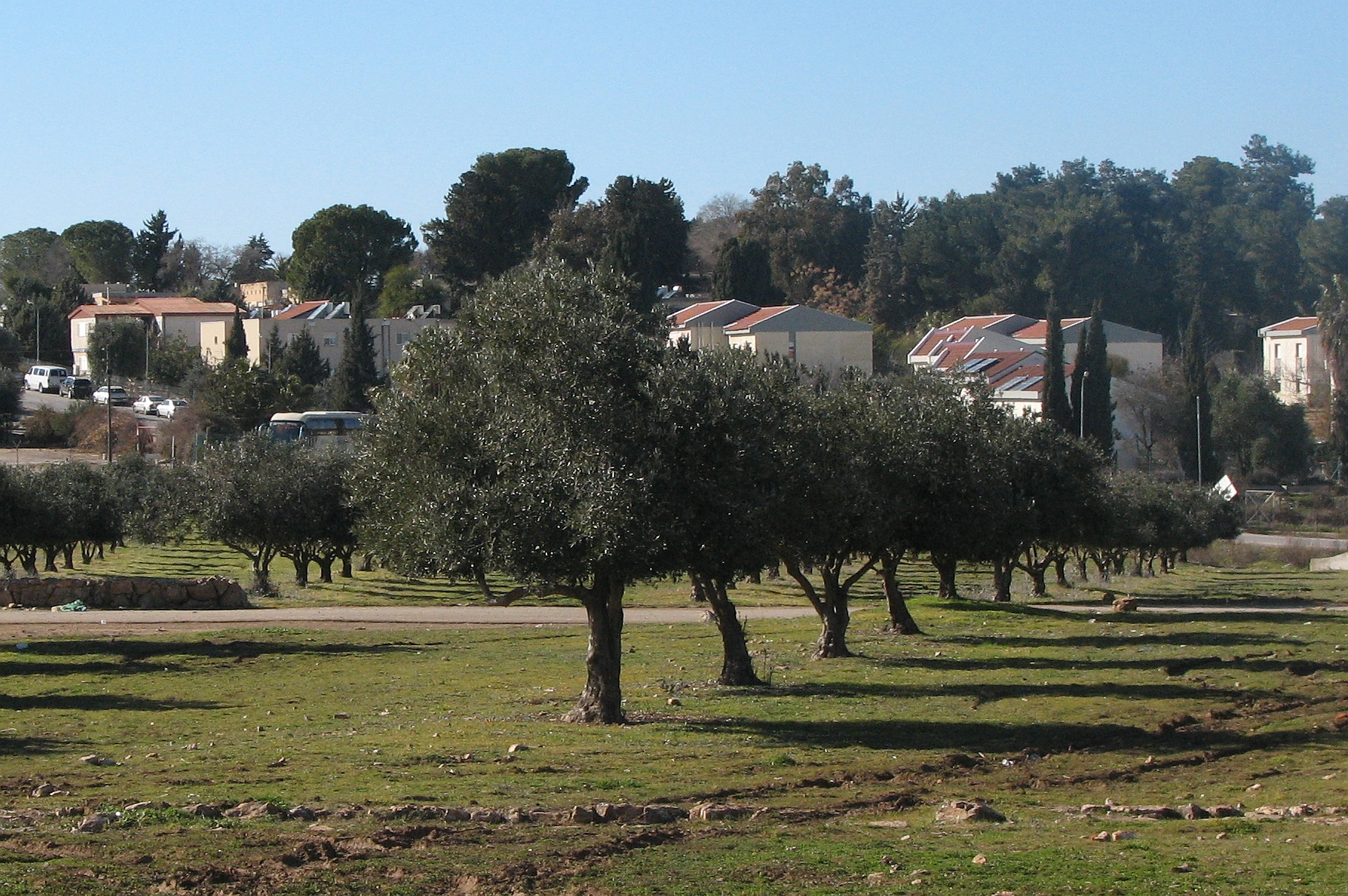 Kibbutz Ramat Rachel, Jerusalem